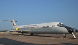 One of the first C-9C Nightingale on display at the AMC Museum in Dover, Delaware.